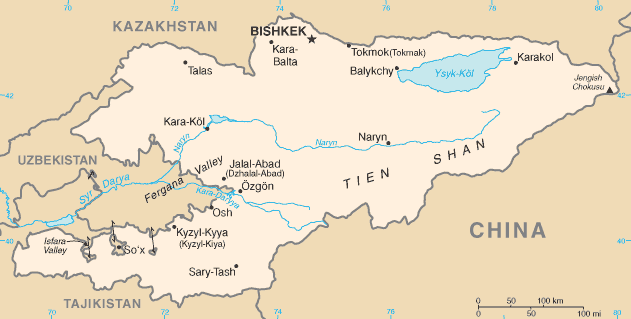 Geographic Map of Kyrgystan